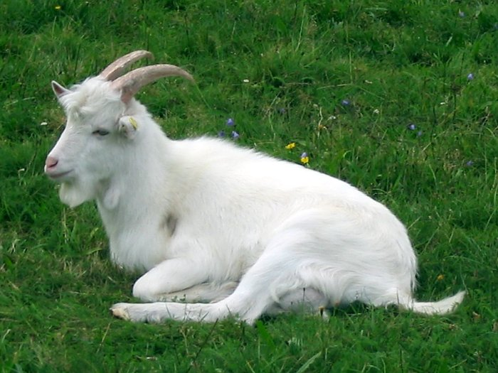 a goat in the Danish open-air museum «Hjerl Hede»